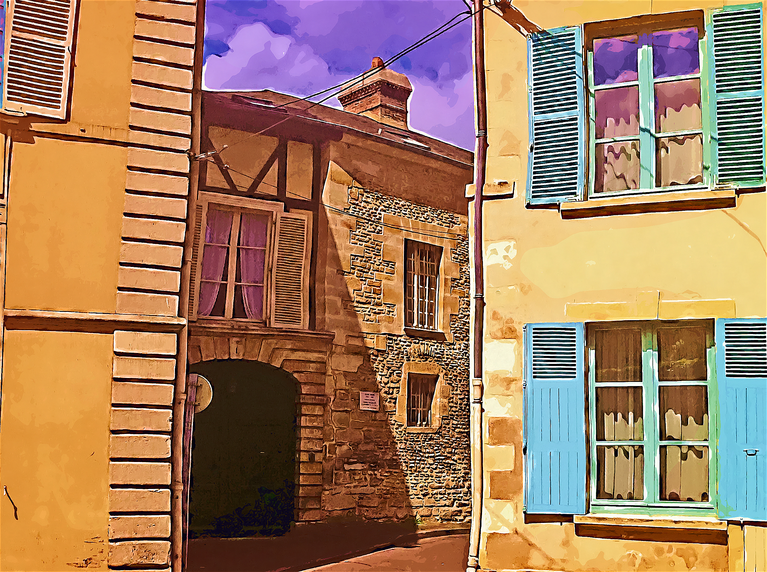 Doorway to a hotel particulaire on Rue de la Vieille Prison